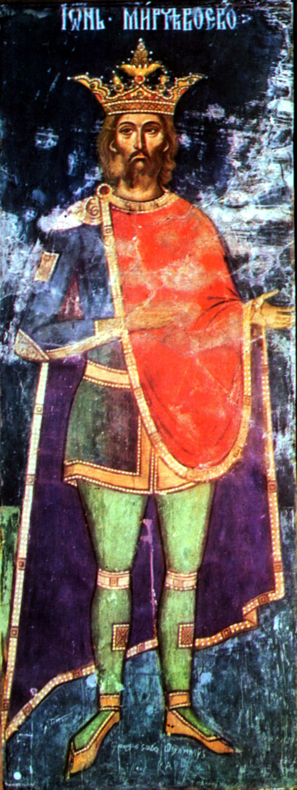 Mircea I of Wallachia, painting at Argeş Episcopy